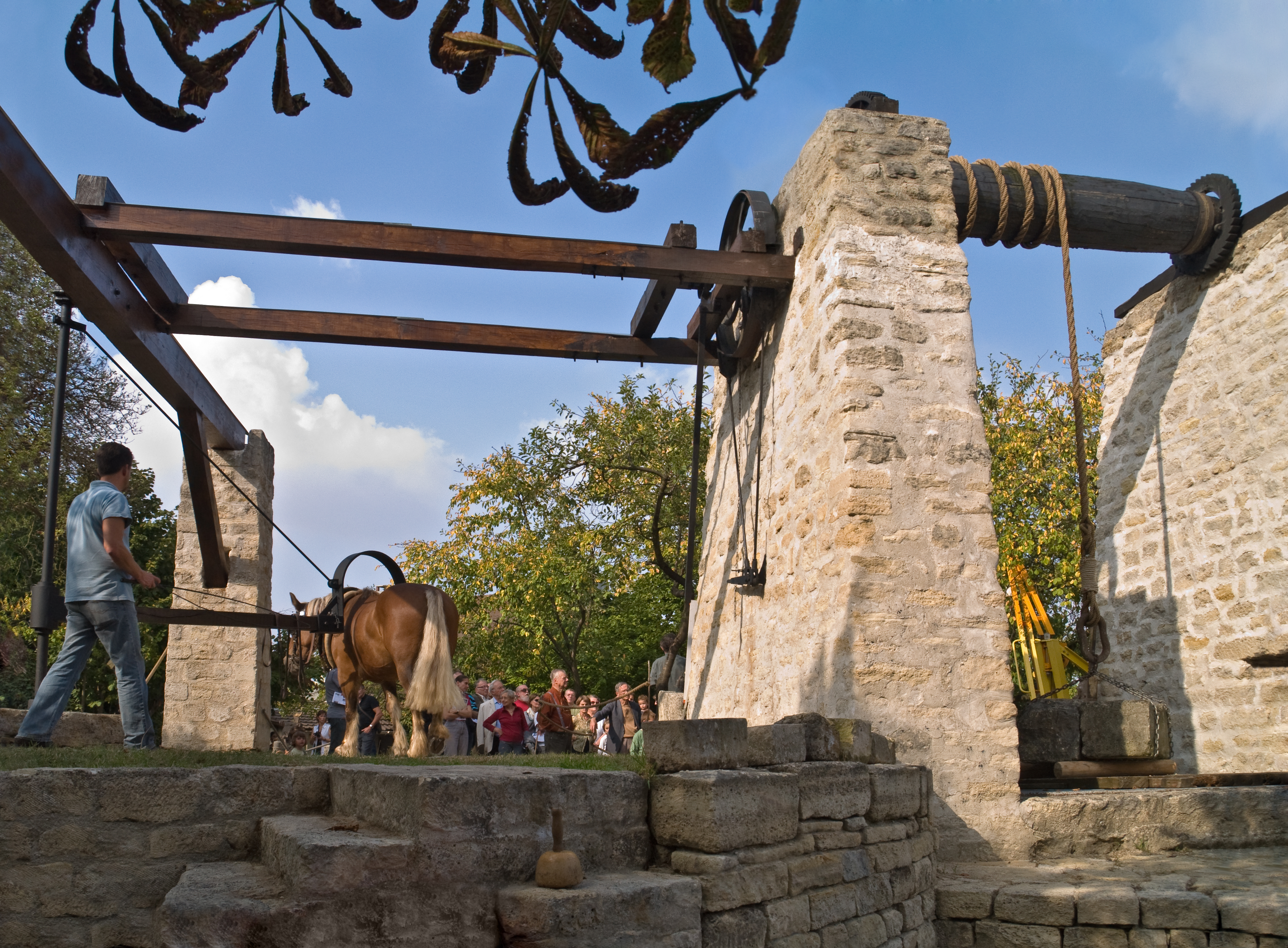 Châtillon (Hauts-de-Seine, France) - The restored horse-drawn winch of the Auboin underground limestone quarry (19th-century), in demonstration during the European Heritage Days 2009.